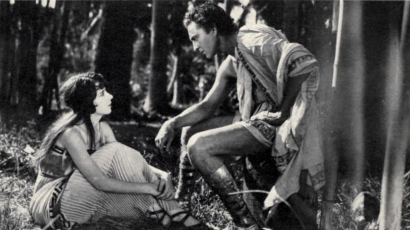 Still from the American romantic drama film The Lotus Eater (1921) with John Barrymore and Colleen Moore, on page 108 of Screen Acting.